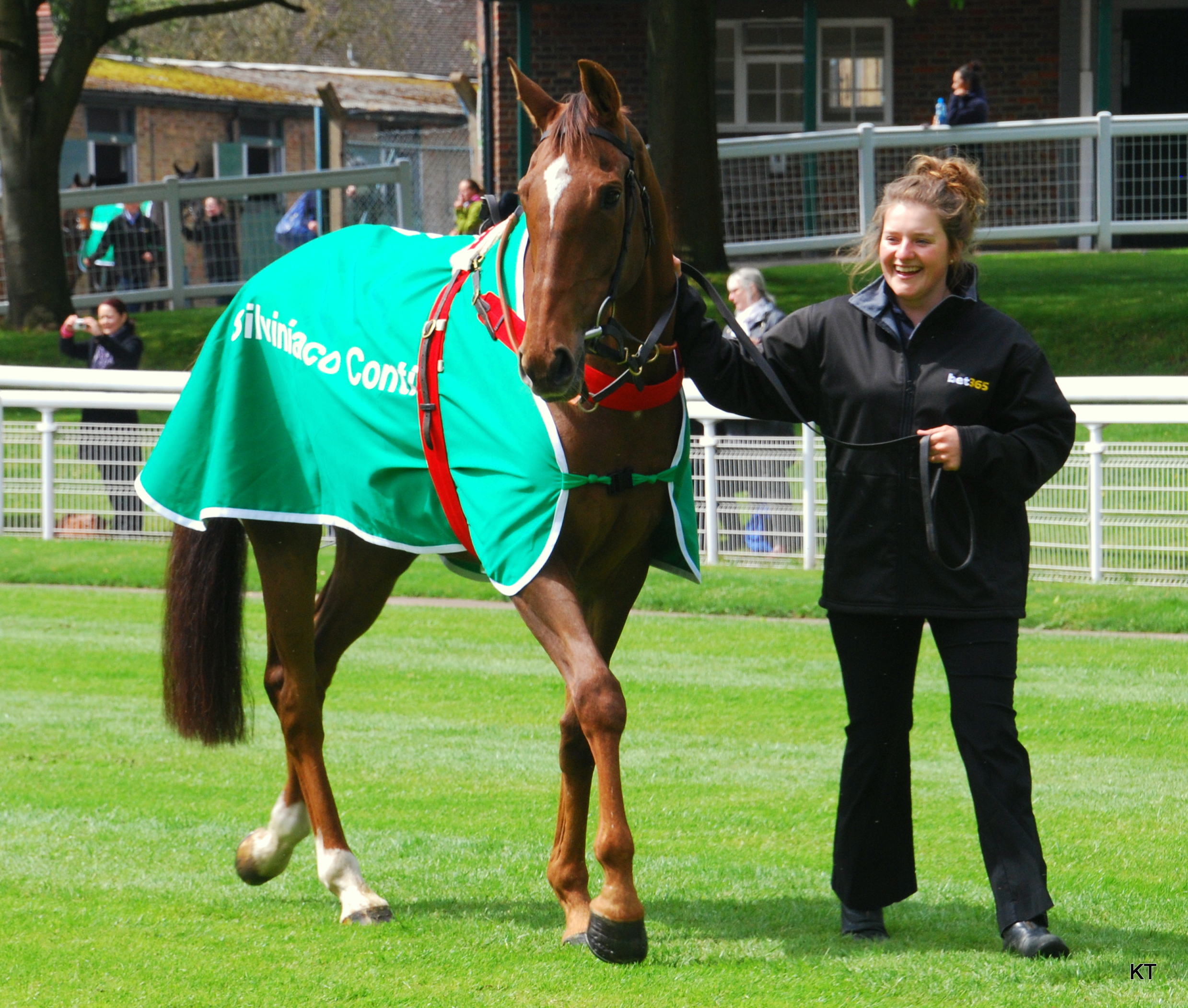 Parade of Champions, Sandown Park, April 2014